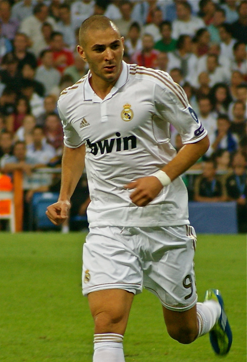 Karim Benzema, Champions League against Ajax 2011 at Santiago Bernabeu